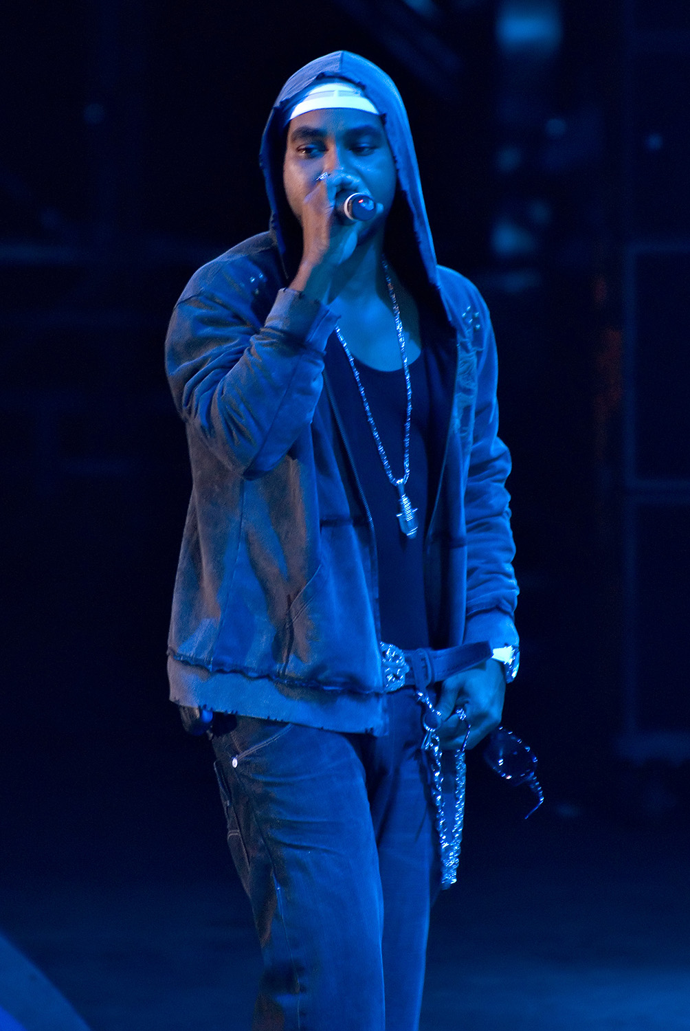 Bruce Brewster AKA Rayvon performing at Live and Loud KL 2007.